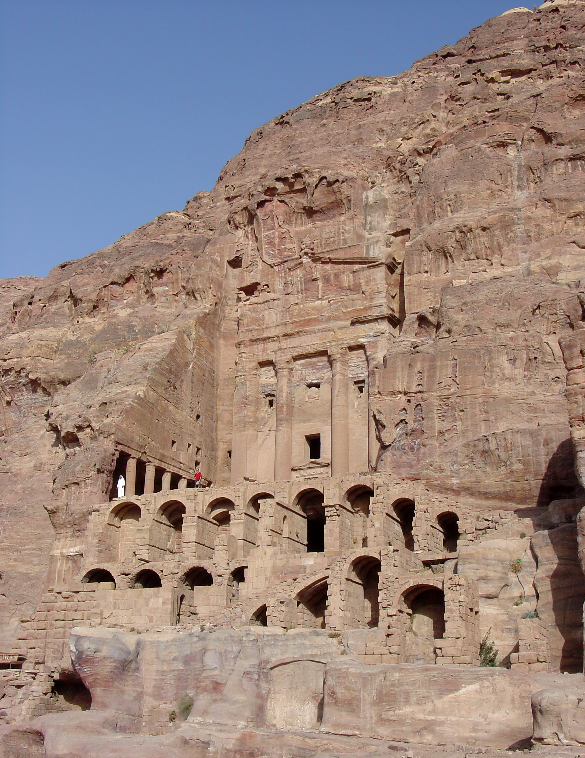 The Urn Tomb is named after the stone urn that is carved on top of its pediment. Its courtyard is supported by two levels of impressively tall arcades, whose barrel vaults appear in the bottom half of the photo. Columned porticos line both sides of the courtyard.